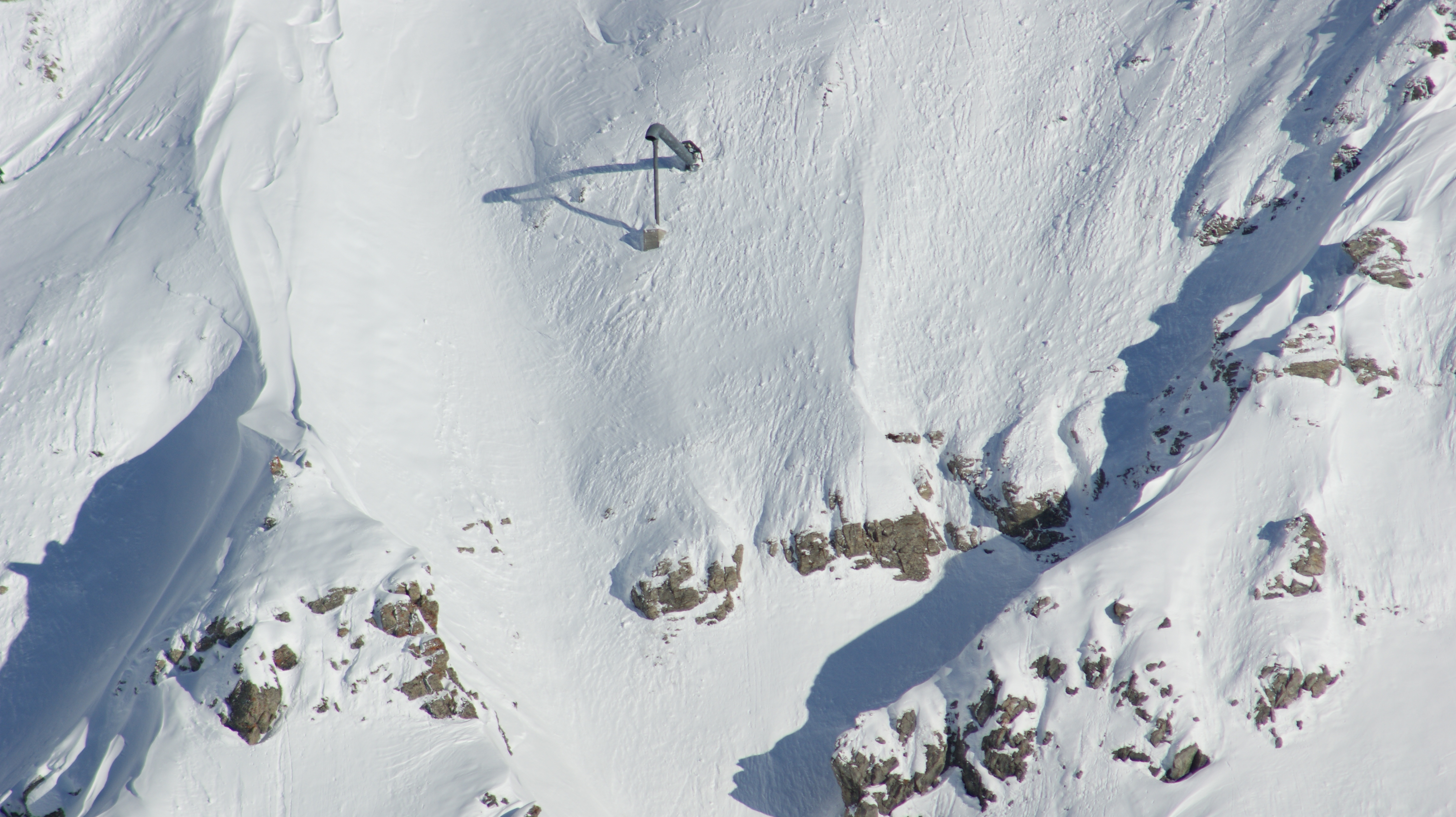 Avalanche trigger "GasEx" in Kloesterle, Alp Rautz, on Schindler Kar, Vorarlberg, Austria.